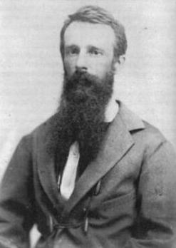 Photo of James J. Archer (1817-1864)